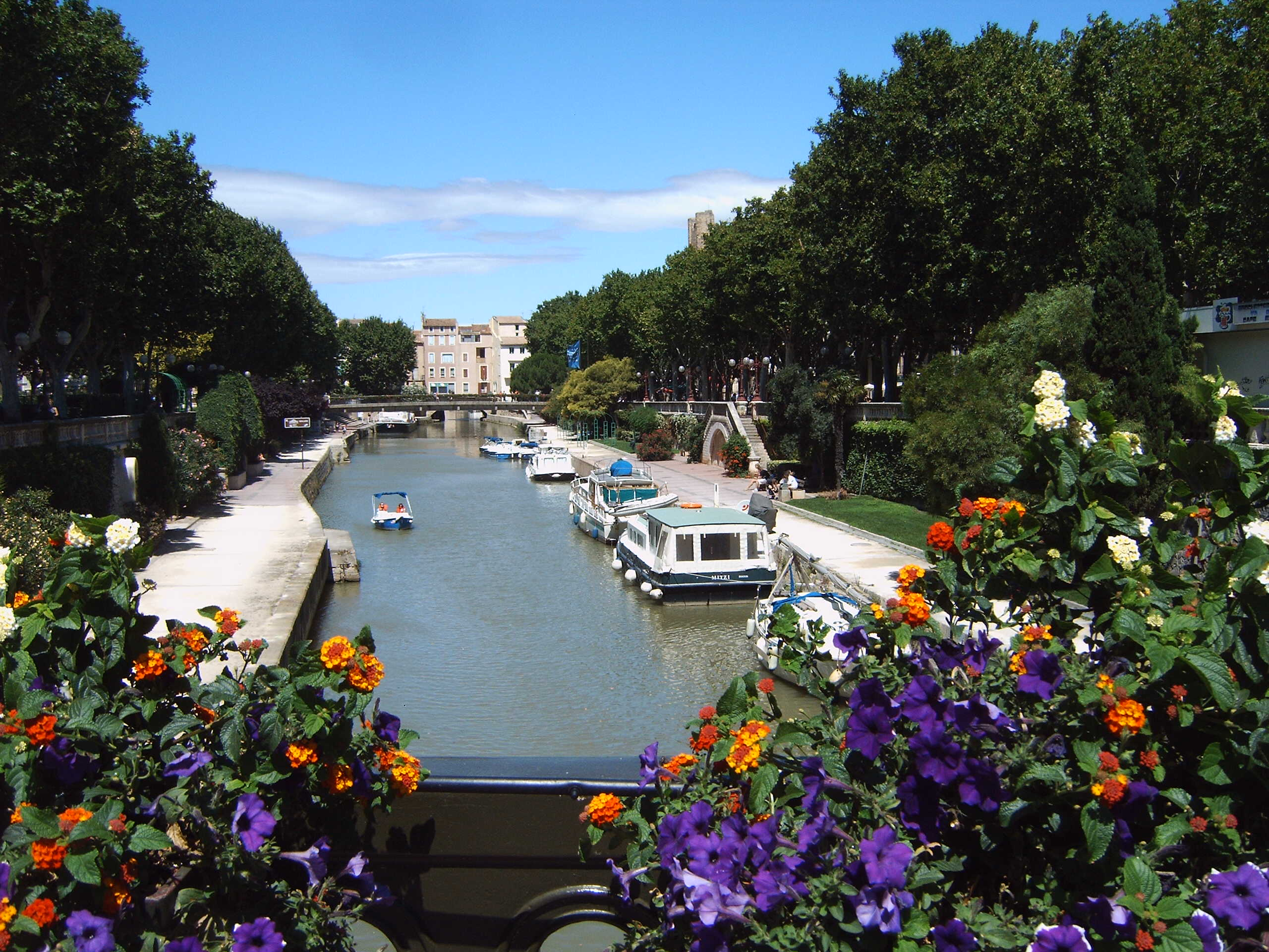 Narbonne (France), Canal de la Robine seen from the Boulevard Gambetta